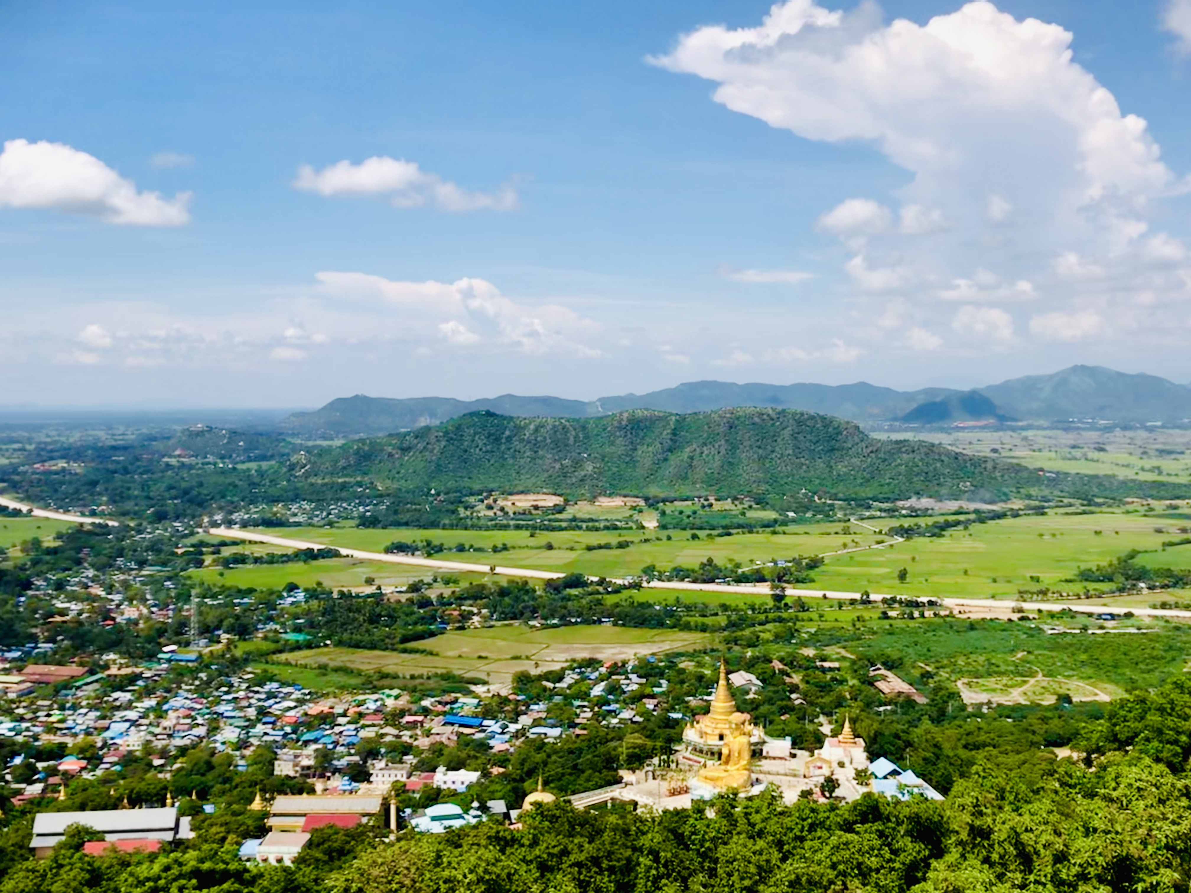 Landscape in Kyaukse